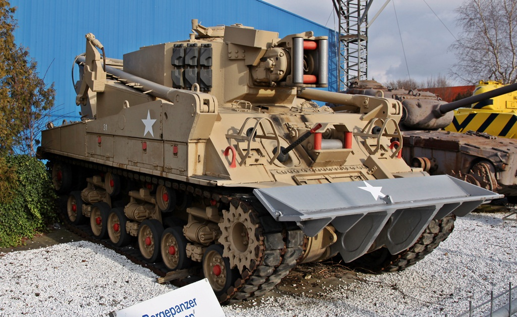 M4 Sherman based recovery vehicle at Technikmuseum, Sinsheim, Germany